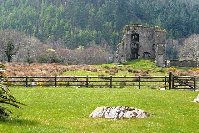 Wynne's Folly All that remains of a much larger castle mansion, built by Lord Headley Wynne in 1867, although he never lived there. The estate had a notorious legacy of evictions due to non payment of rents, increased to pay for the construction of the castle. The castle was used as a British military reservists training area during WW1. It was burnt down by Republican forces during the Irish Civil War in 1921 or 1922 and never rebuilt.